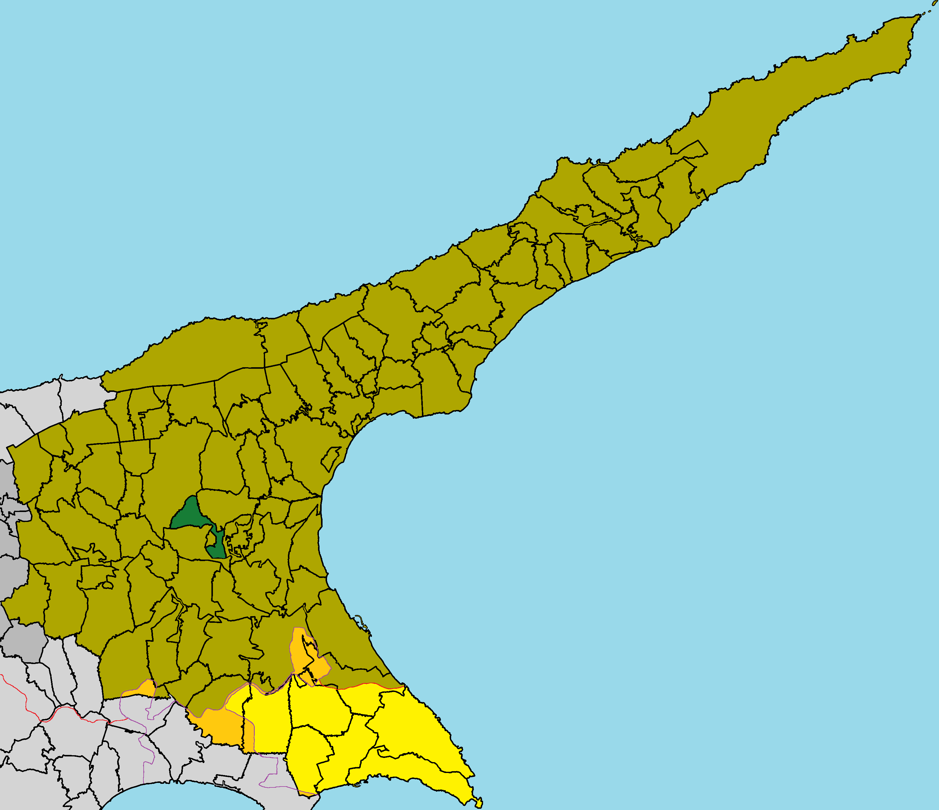 Pigi in Famagusta District (de jure).